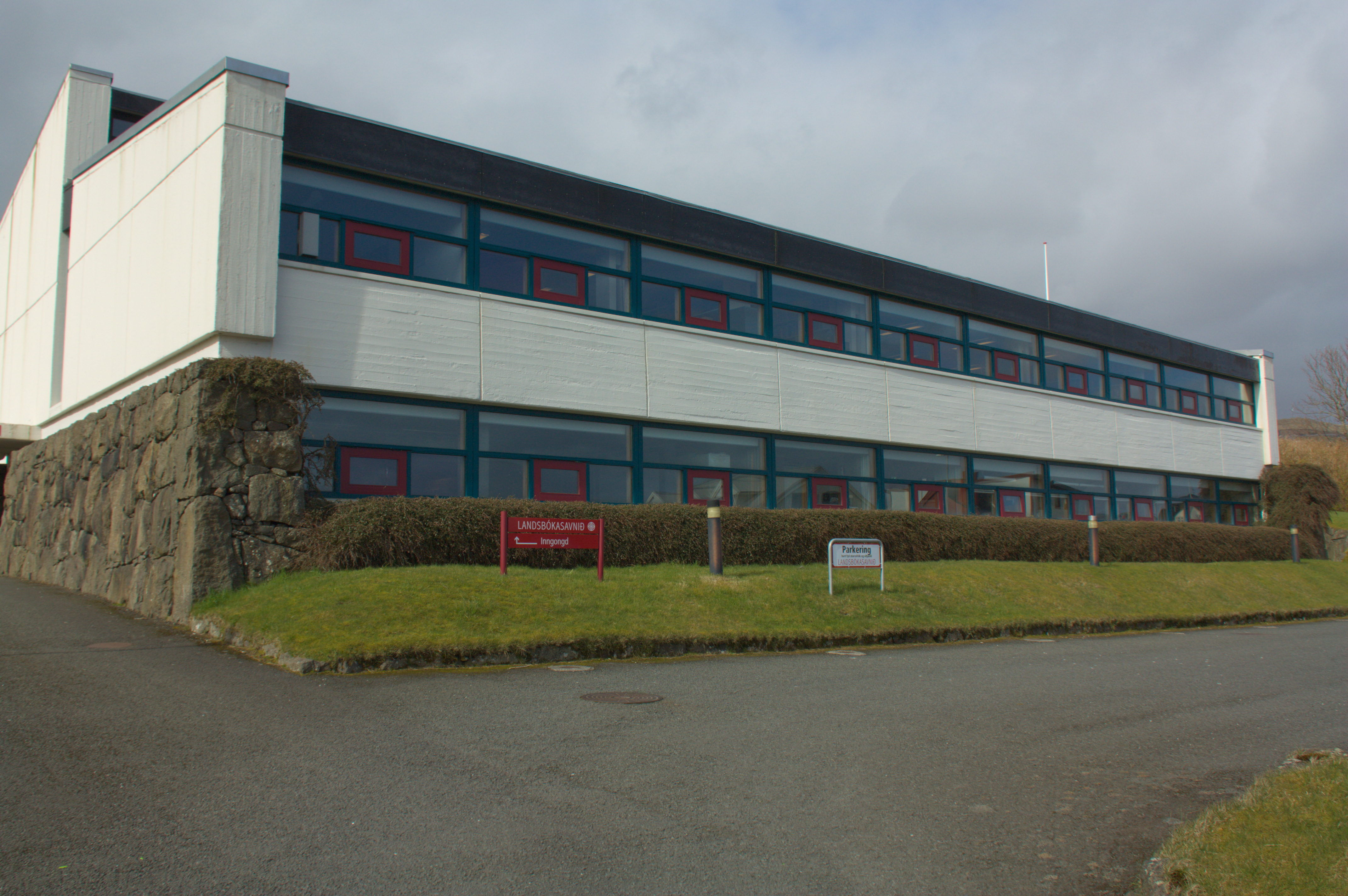 National Library of the Faroe Islands. Føroya Landsbókasavń.